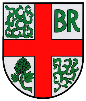 Coat of arms of Briedel